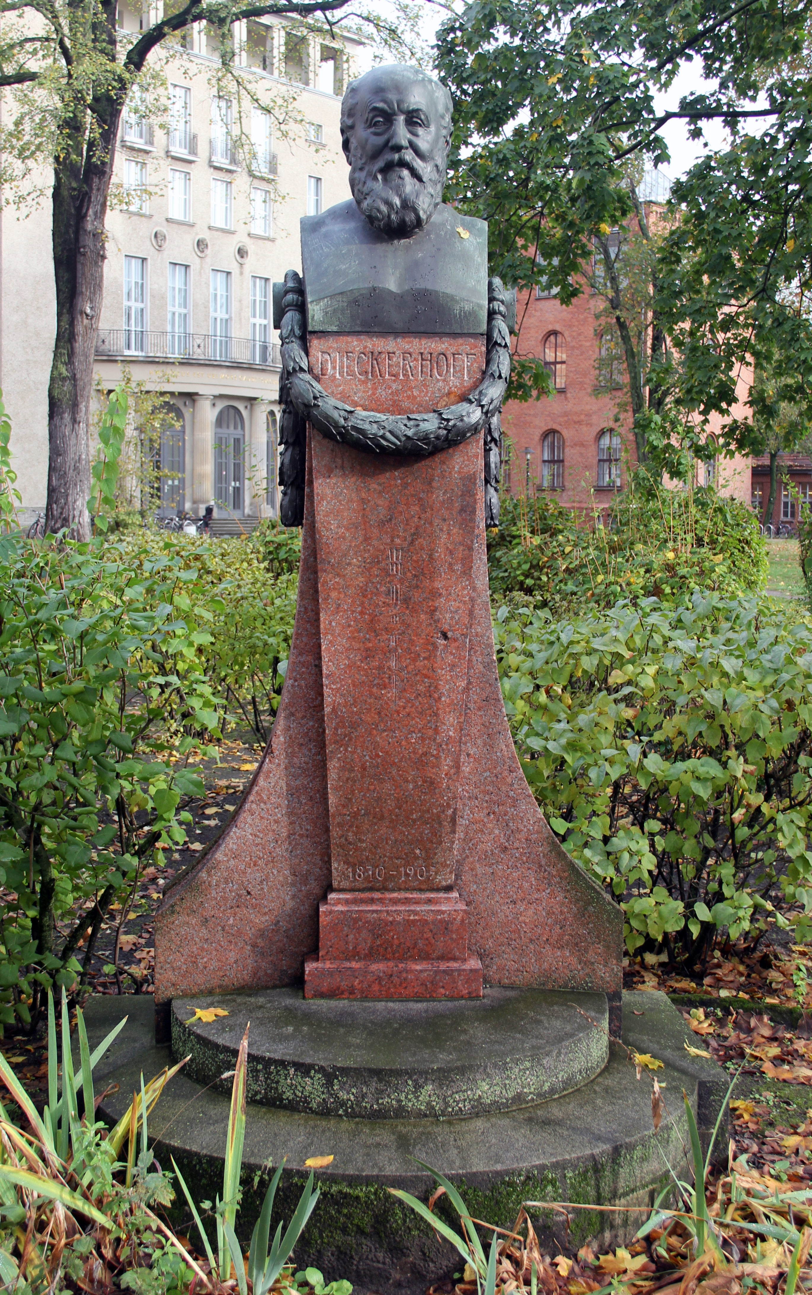 Bust, Wilhelm Dieckerhoff, Luisenstraße 56, Berlin-Mitte, Germany